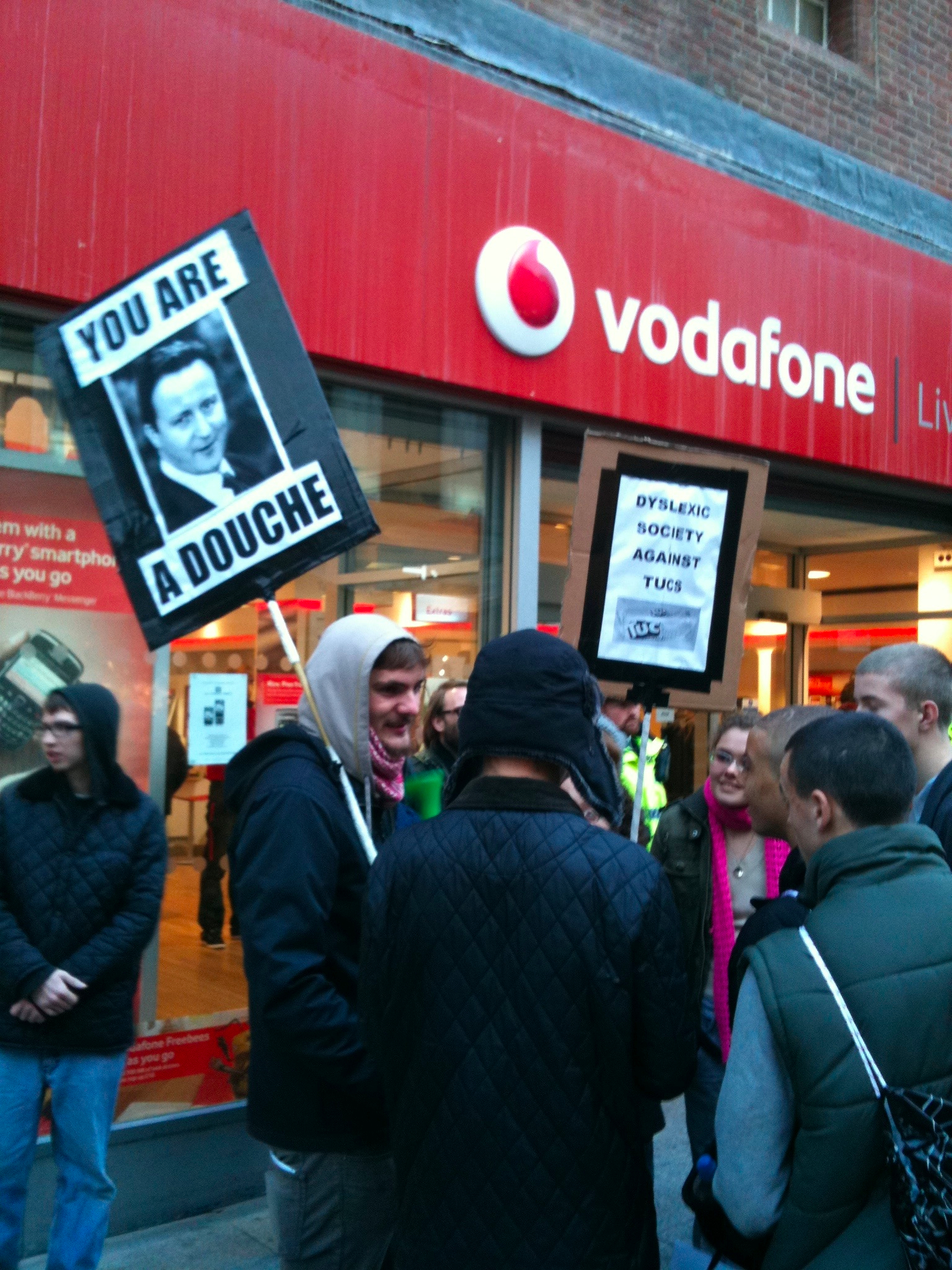 UK Uncut protest outside Vodafone, Church Street, Liverpool.